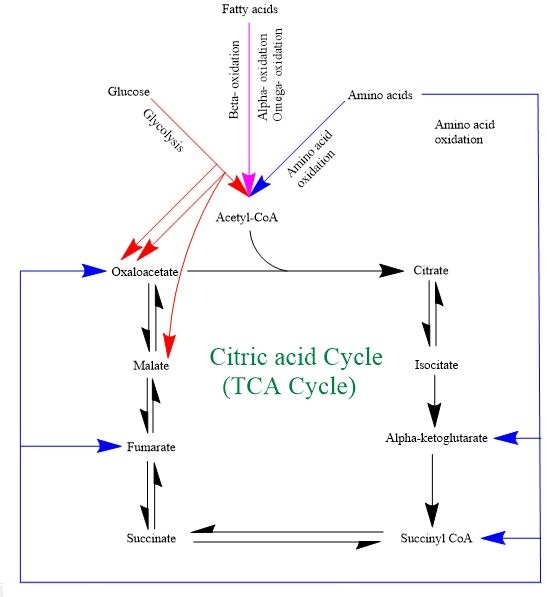 Citric acid cycle does not have to start with acetyl CoA. There are some alternative routes to join the cycle. Note that different amino acids may use either the same alternative route or separate route to be a part of the cycle.